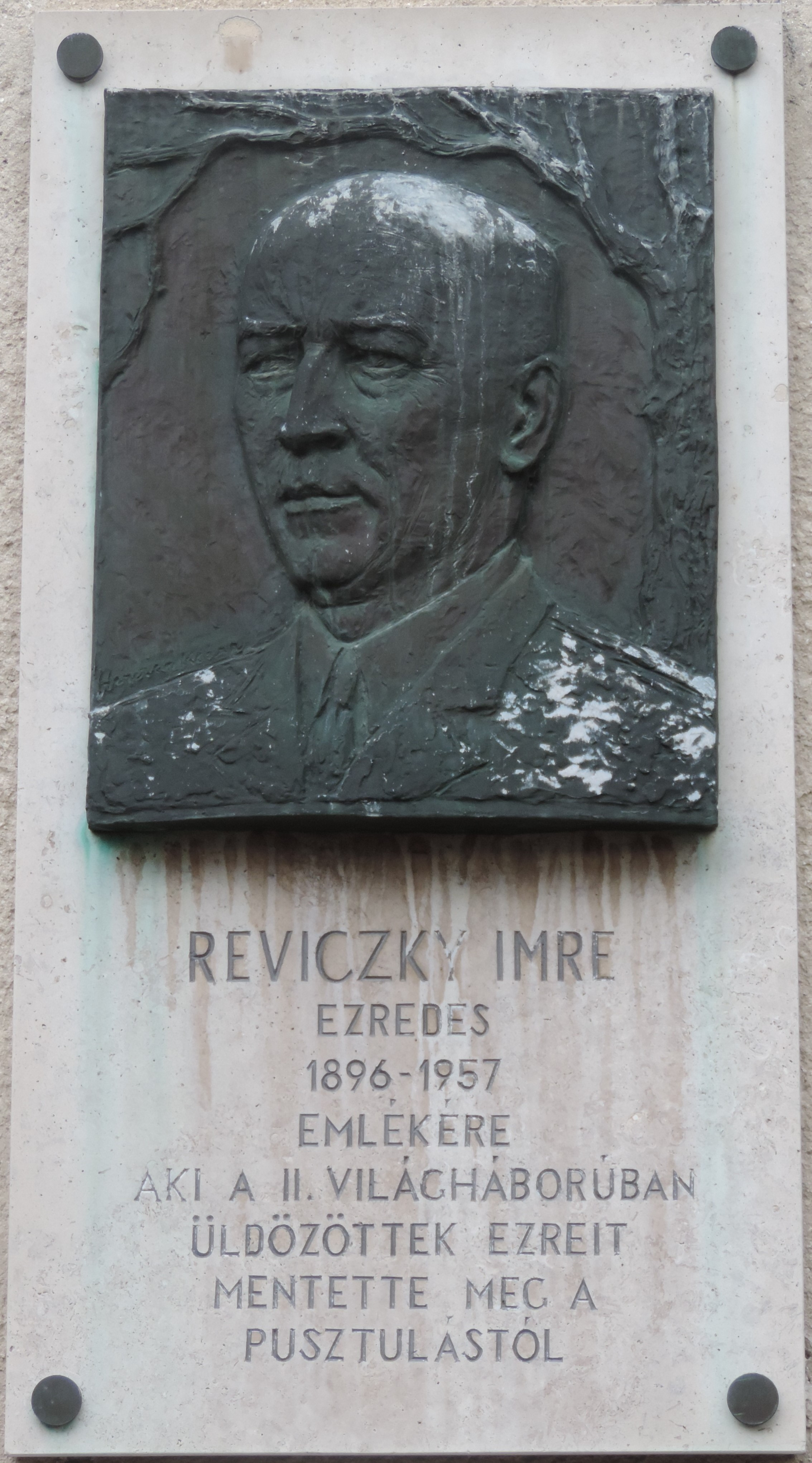 Commemorative plaque to Imre Reviczky, Budapest, District II, Mandula utca No 25